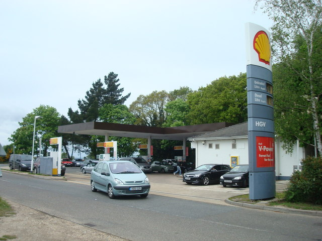 Petrol Station, Picket Post